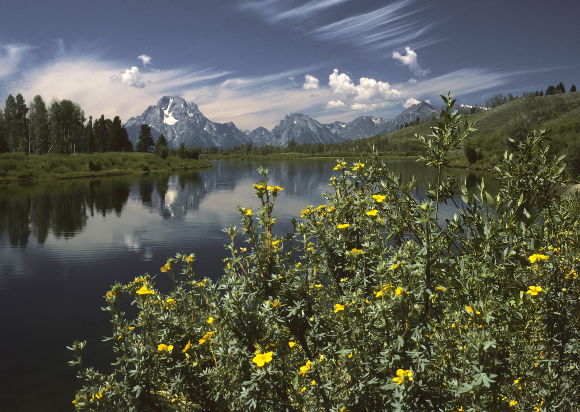 Oxbow Bend outlook in the Grand Teton National Park. View over the Snake River to the Mount Moran with the Skillet Glacier (12,605 ft/3,842 m), Bivouac Peak (10,825 ft/3,299 m) and Eagles Rest Peak (11,258 ft/3,431 m) in the Teton Range, Wyoming, United States.